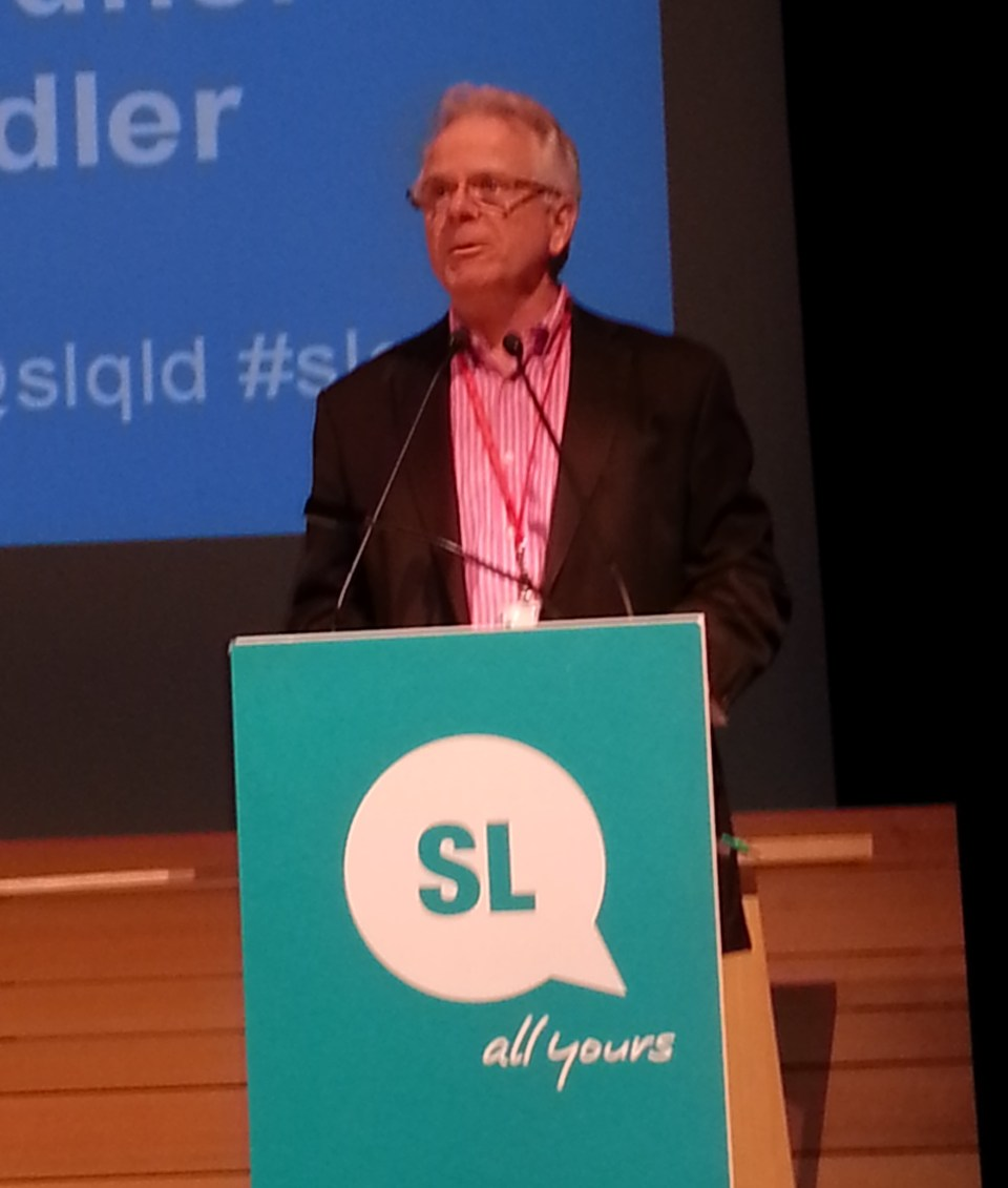 Stuart Cunningham from the SLQ Board introduces Sue Gardner and Richard Fidler in Brisbane, 13 February 2013.